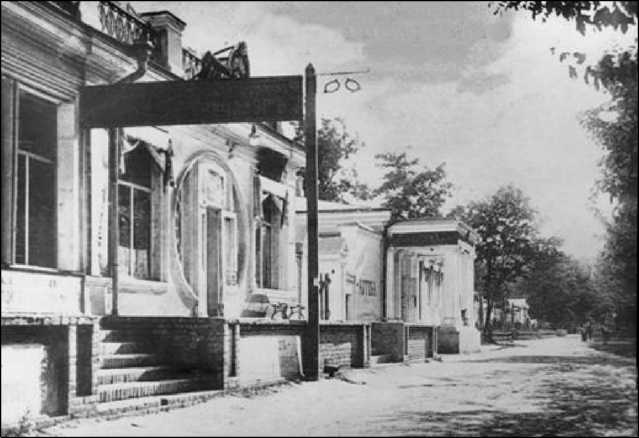 Gubernatorskaya street in Skobelev city (in present Fergana)